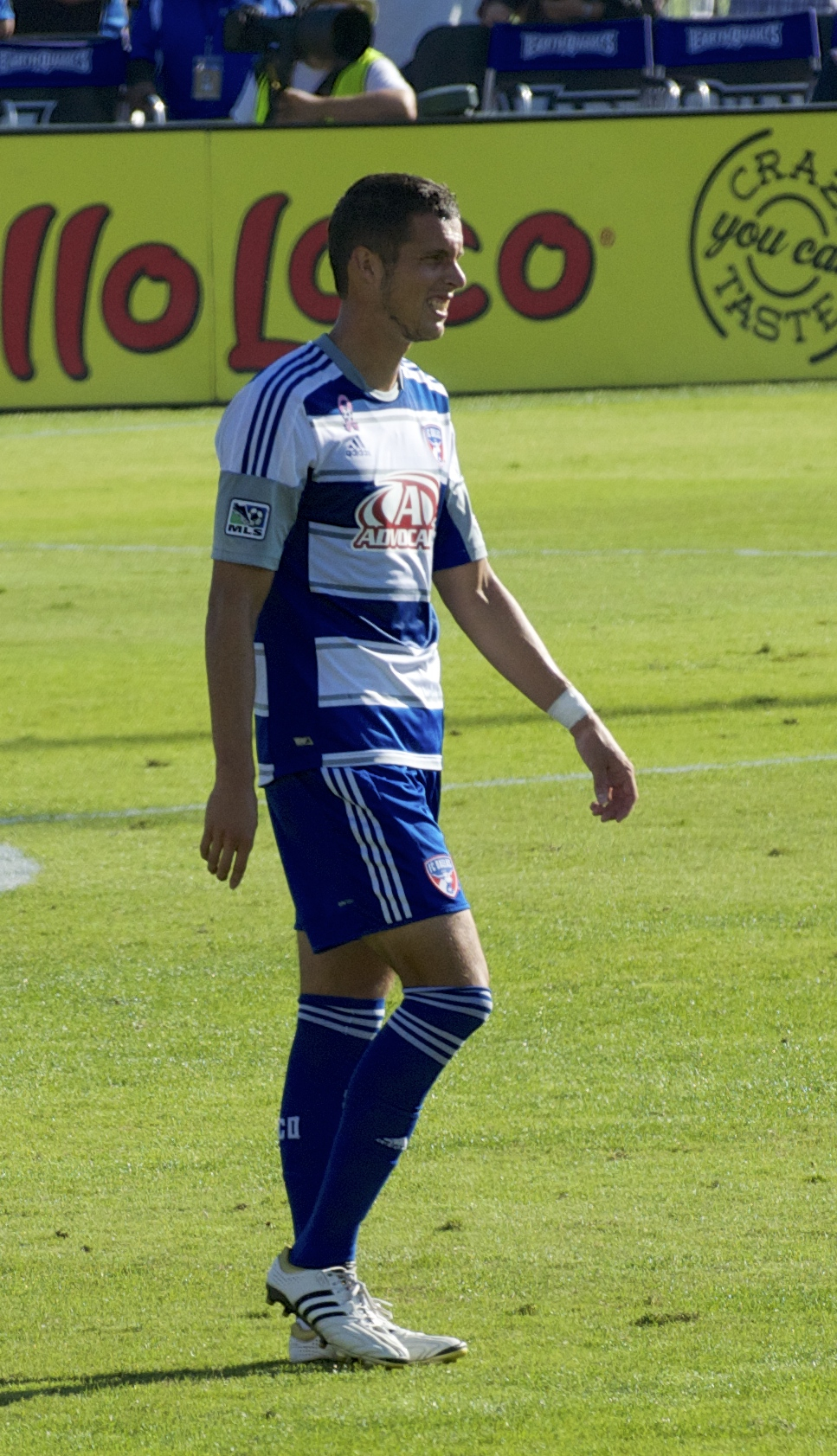 Matt Hedges, FC Dallas, Buck Shaw Stadium, 26 October 2013